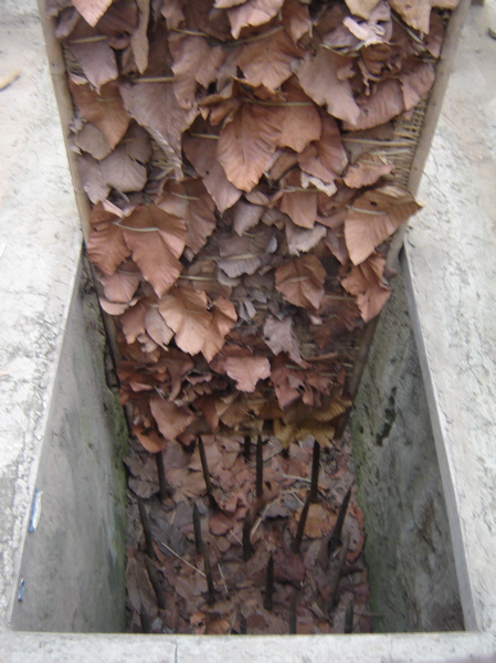 A Trap Door at Cu Chi Tunnels. Photo taken by Frances76.